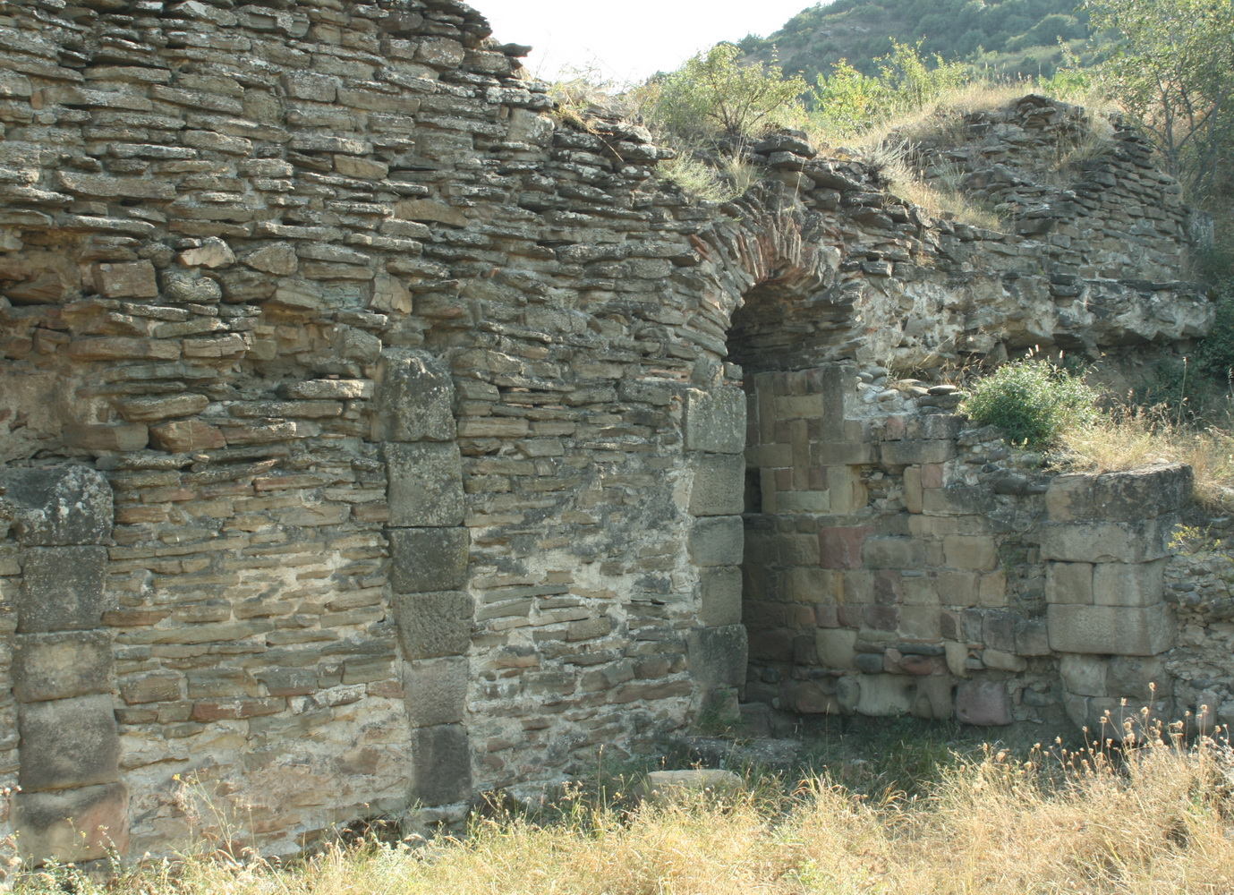 Armazi ruins